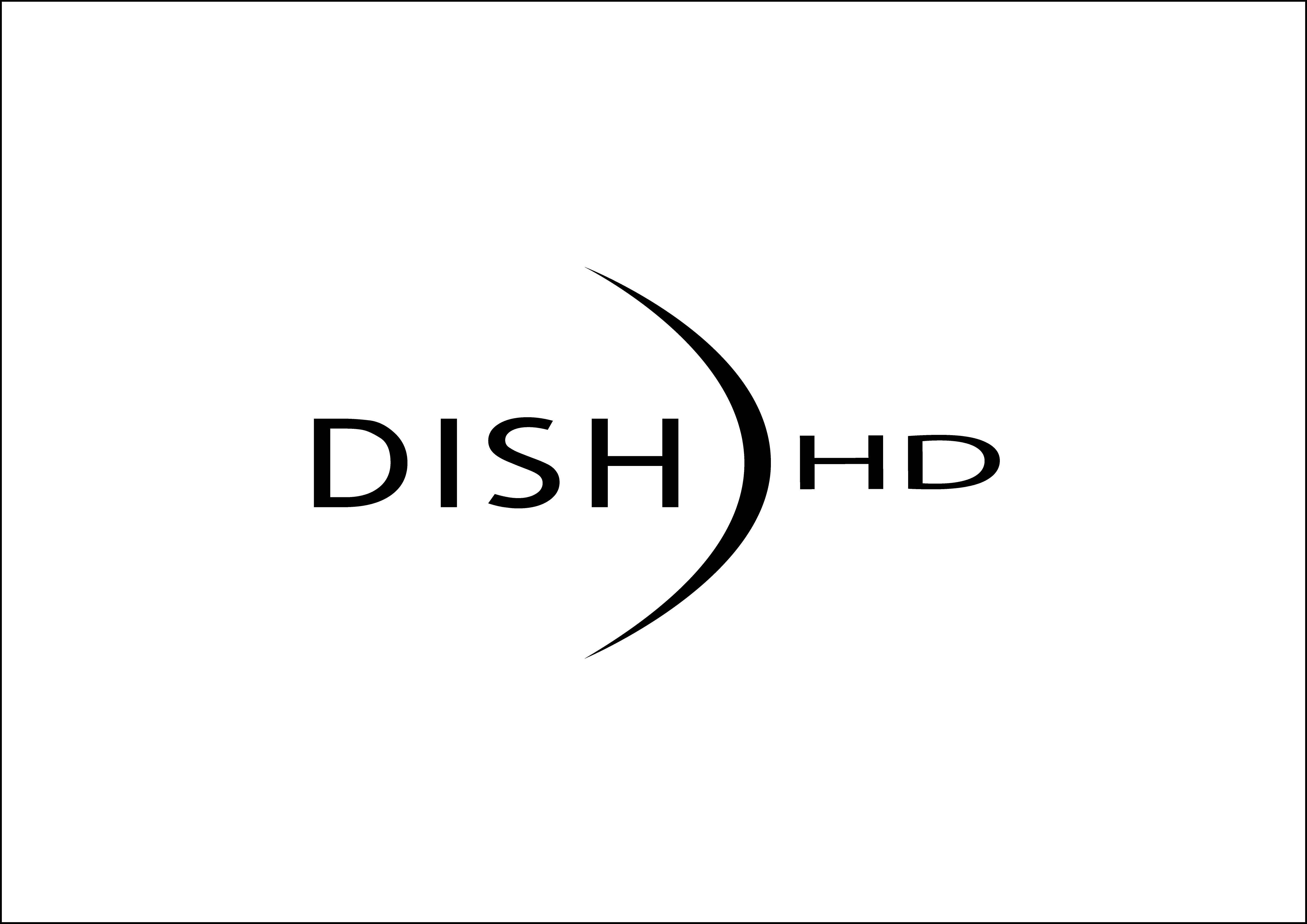 DishHD logo